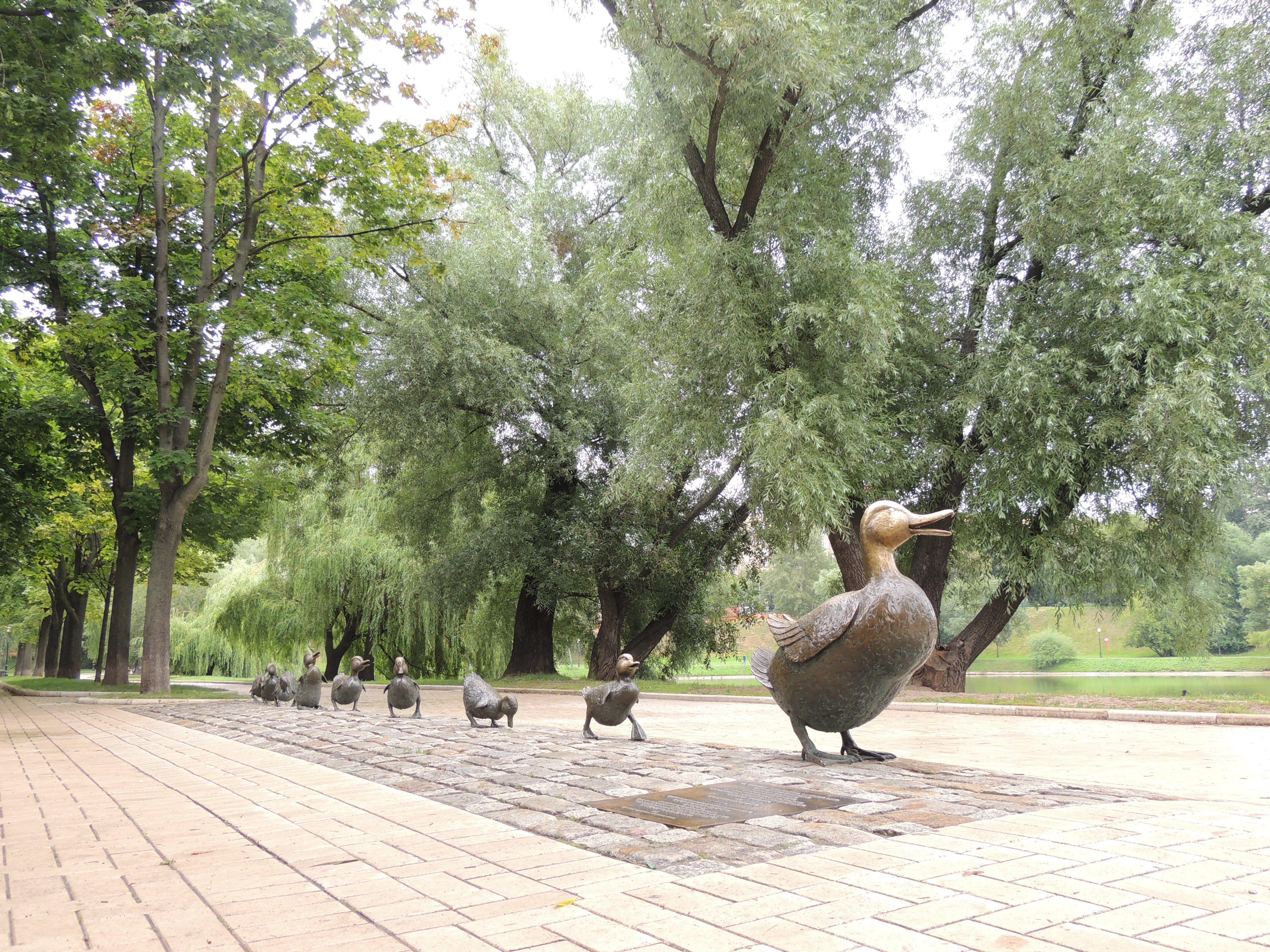 Ducks at the park in front of the Novodevichy Convent